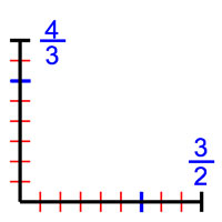 Changing scale to get integers